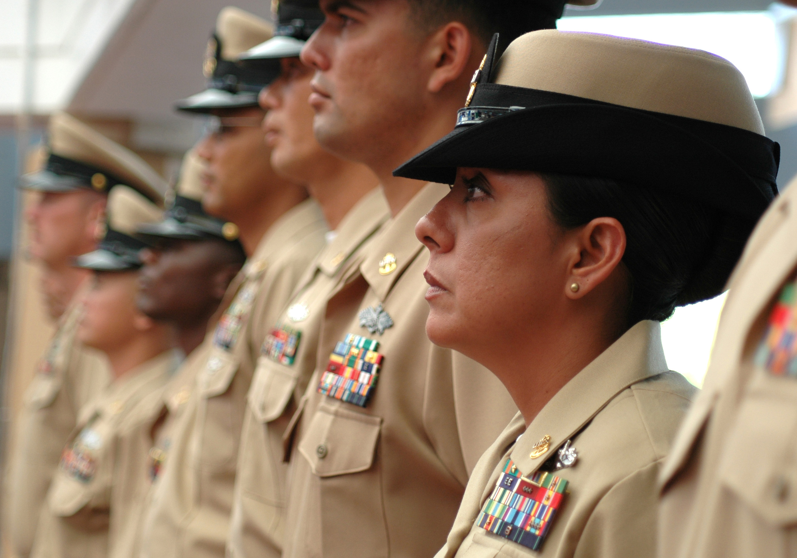 Pearl Harbor, Hawaii (Sept. 15, 2006) - Chief Master-at-Arms, Karla Thompson, stands along side of her new fellow chief petty officers during a pinning ceremony on board Naval Station Pearl Harbor. Twelve selectees were pinned by their friends, family and fellow chiefs in a traditional ceremony at Lockwood Hall. U.S. Navy photo by Mass Communication Specialist 1st Class James E. Foehl (RELEASED)